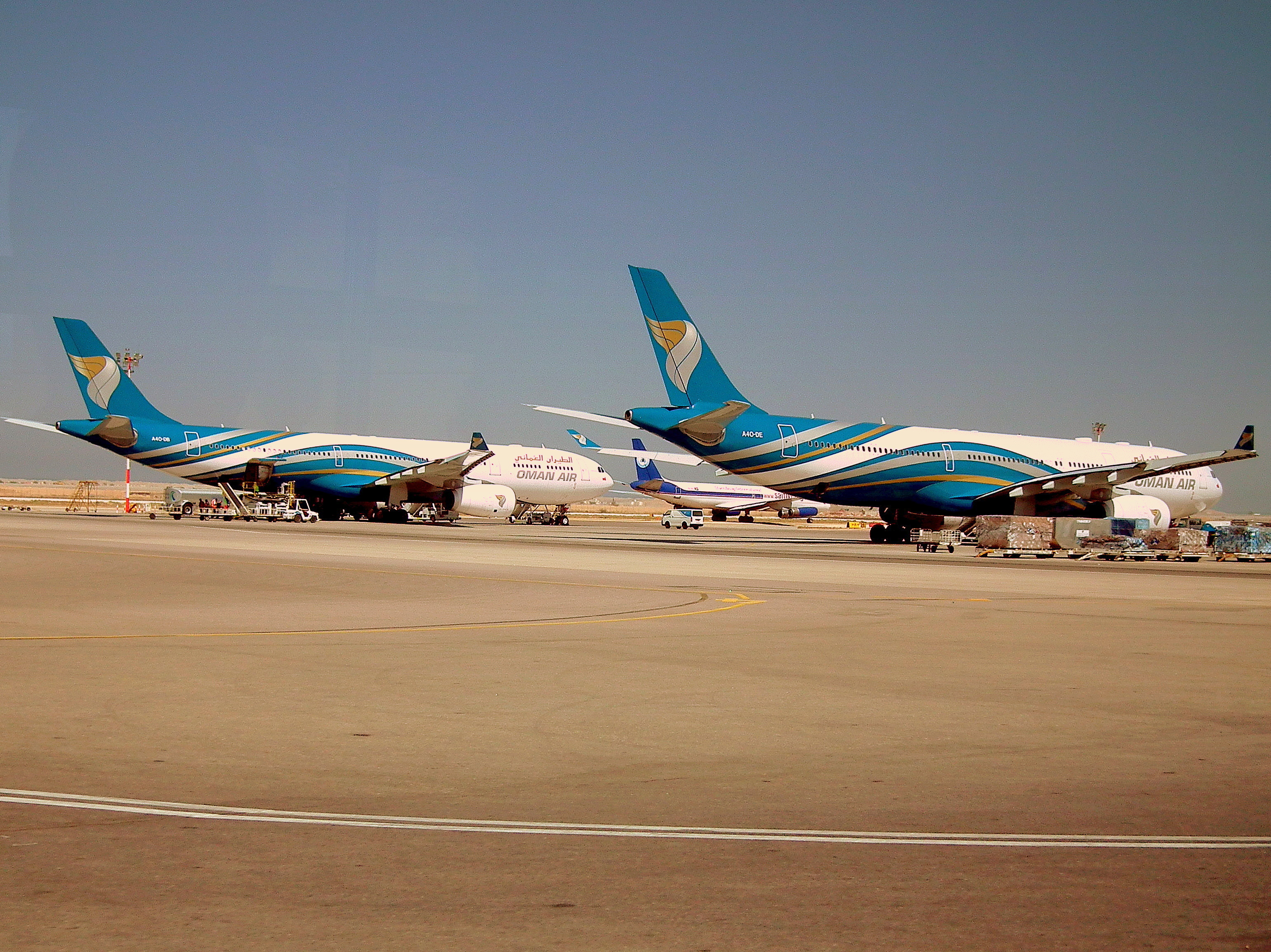 Oman Air A330s at Muscat Airport, Oman